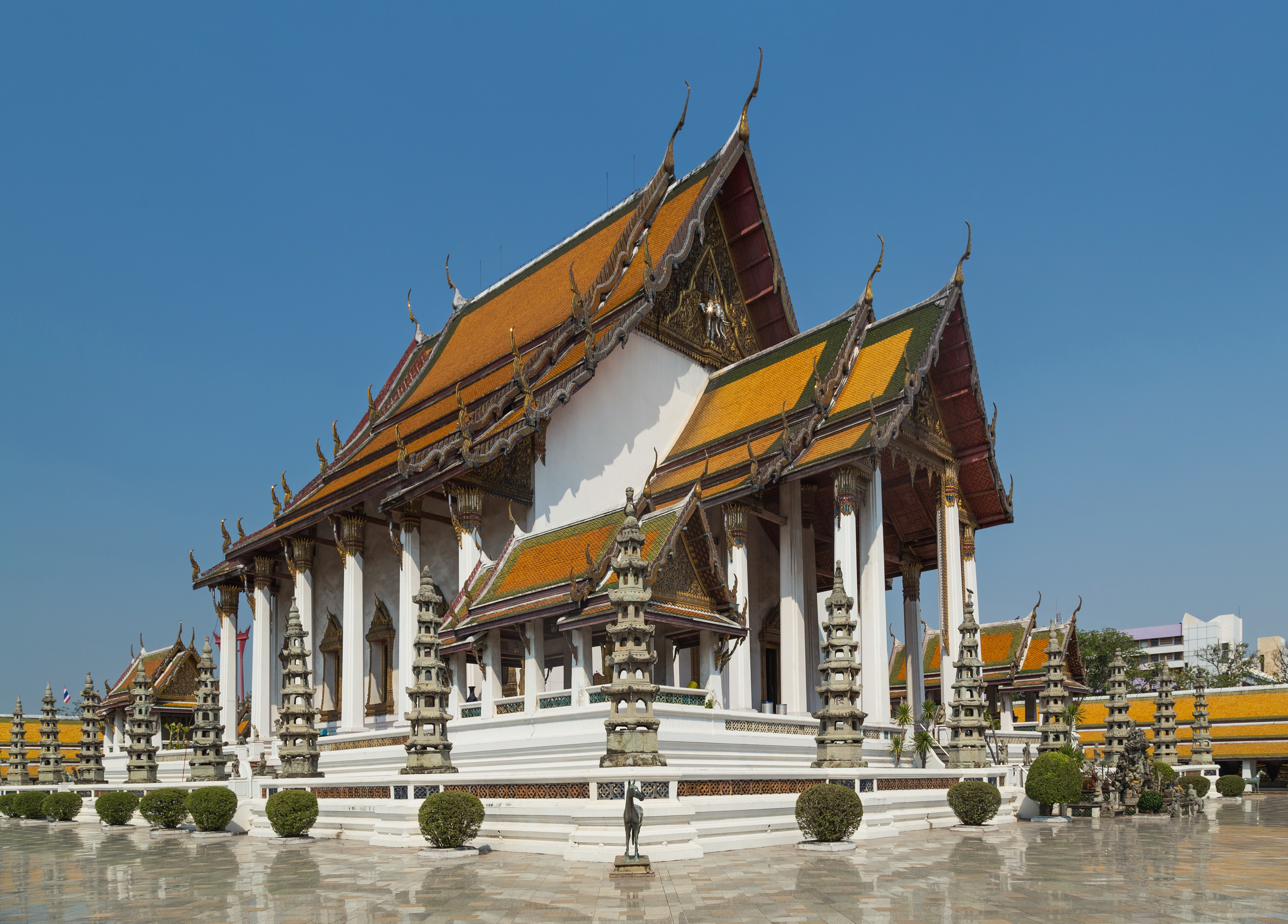 Wihan Luang (main hall). Wat Suthat. Phra Nakhon District, Bangkok, Thailand.